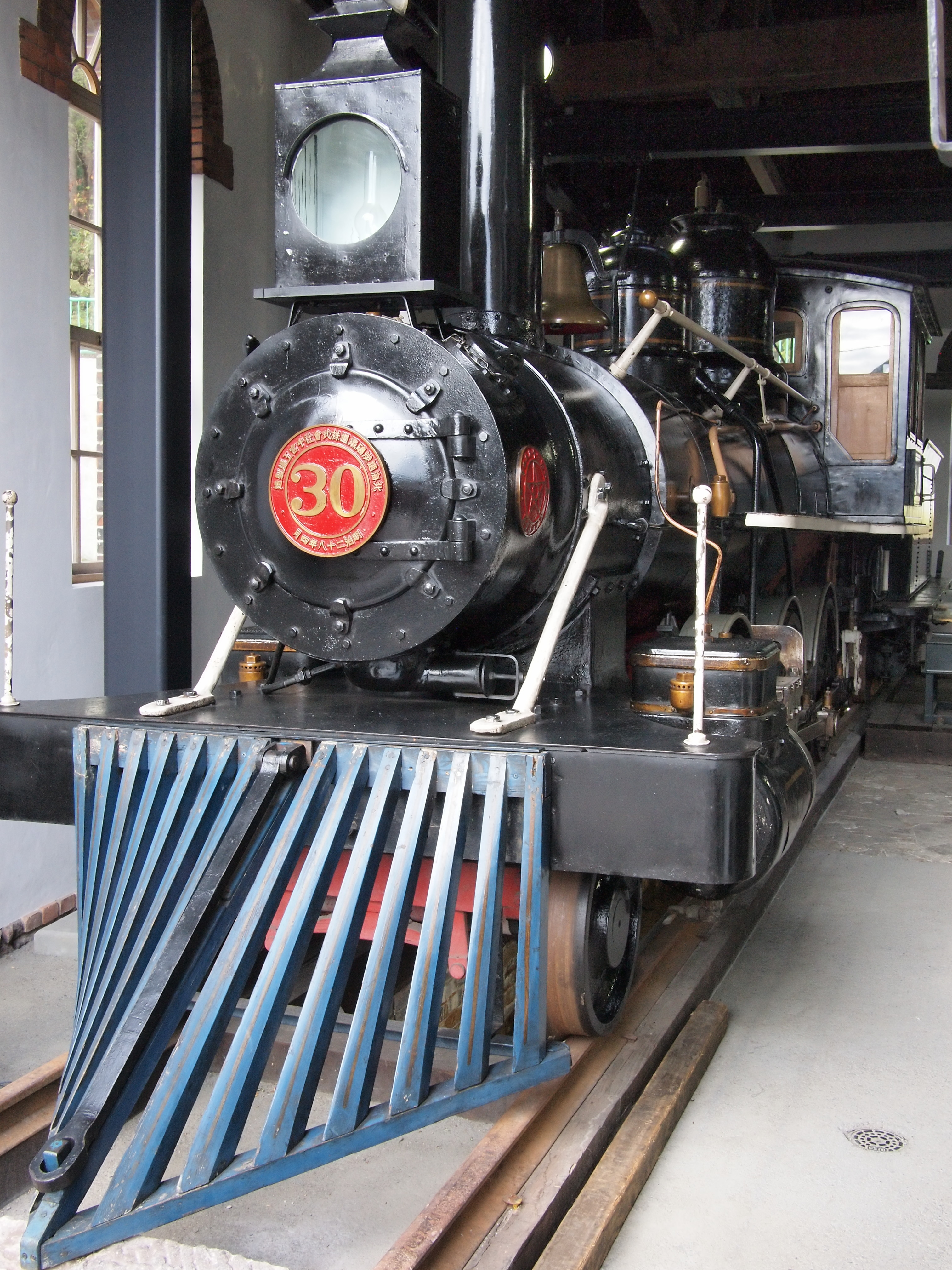 JNR Steam Locomotive Type 7150, Otaru, Hokkaido, Japan